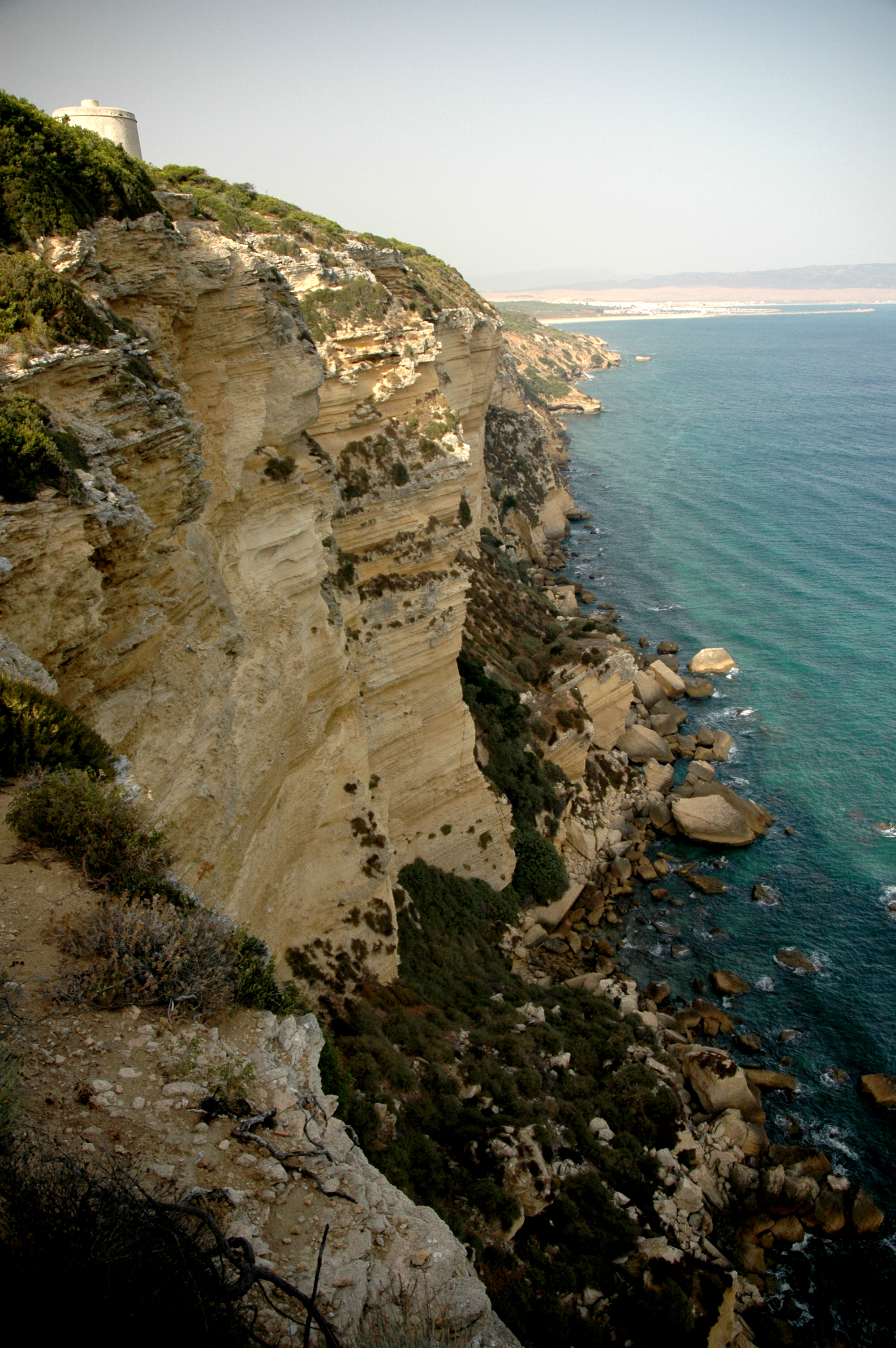 Barbate coast in Andalusia, Spain.